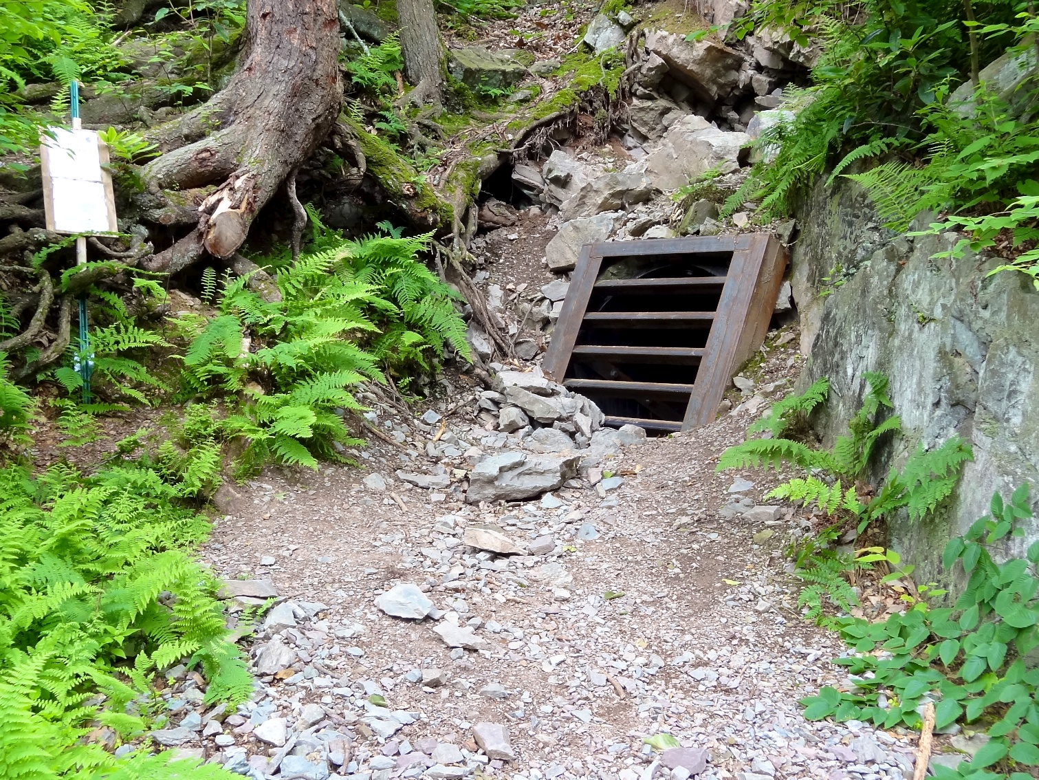 Adit Number 2 at Pahaquarry Copper Mine. Probably dates from the 1750s.